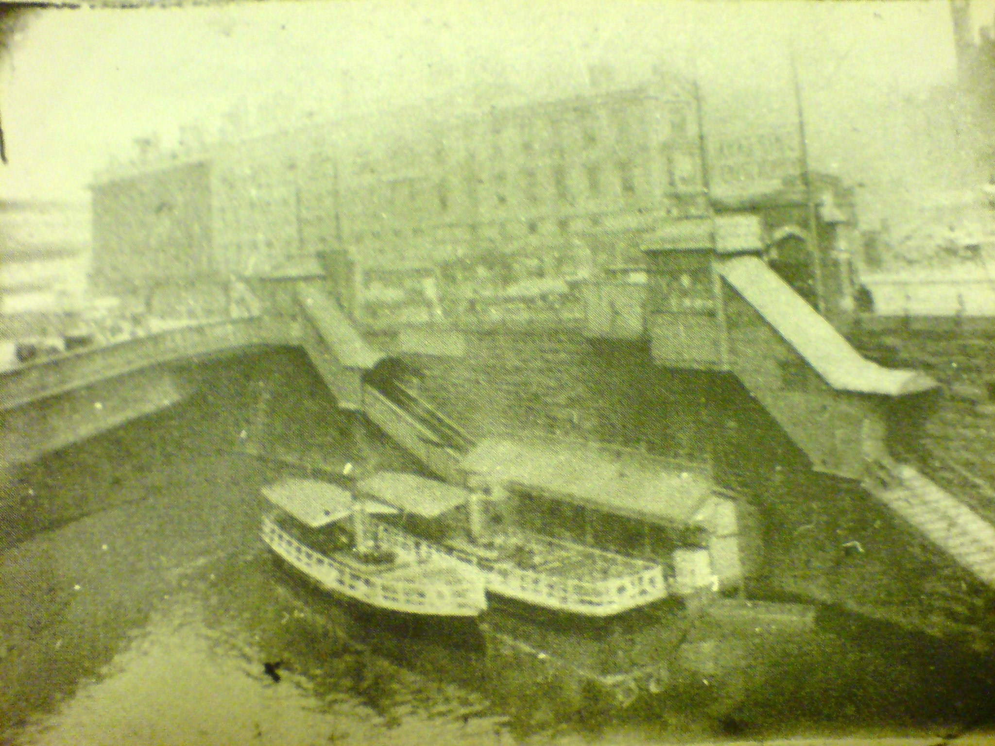 Cathedral Landing Stage, Victoria Arches, Manchester.